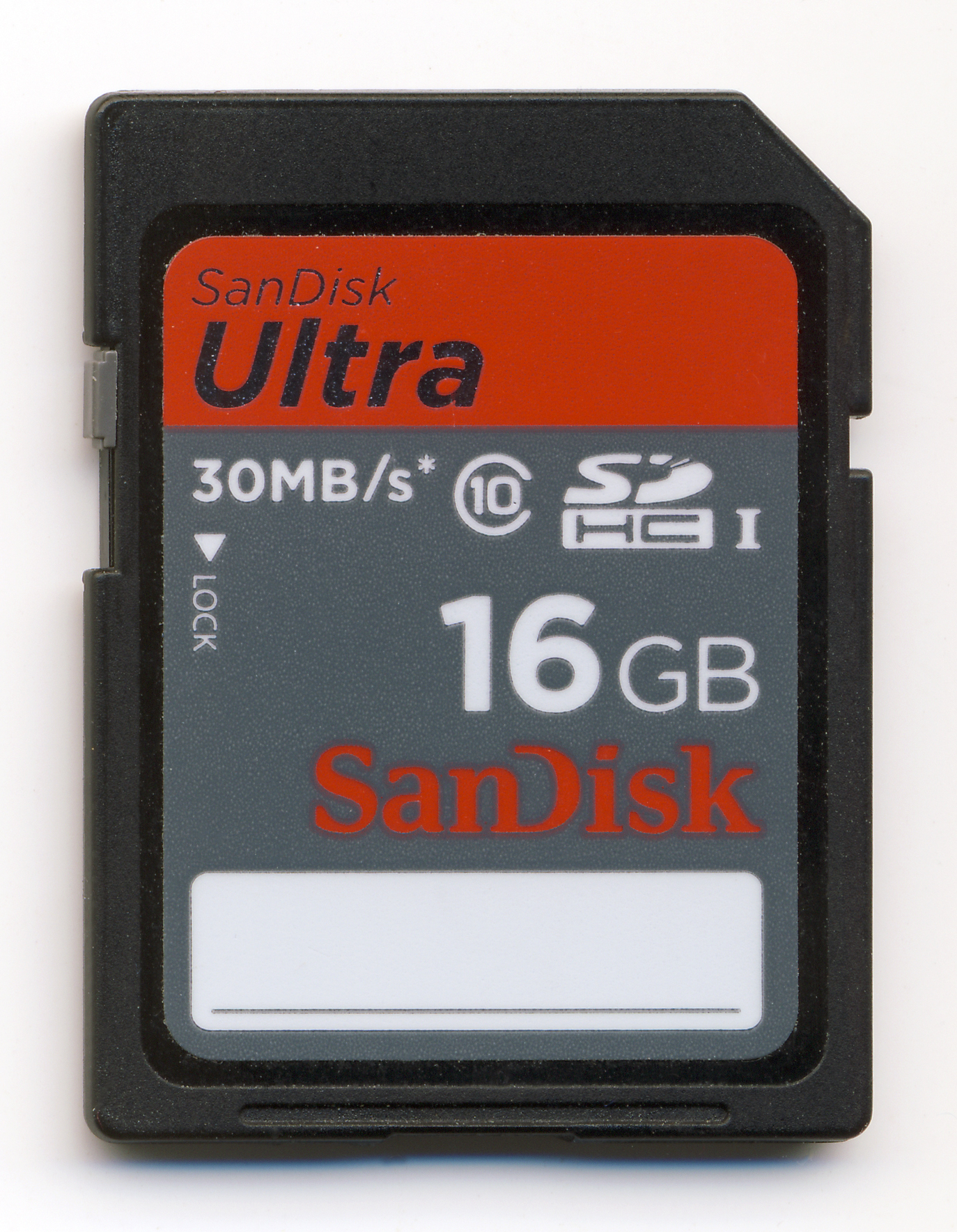 Sandisk SDHC memory card, 16GB